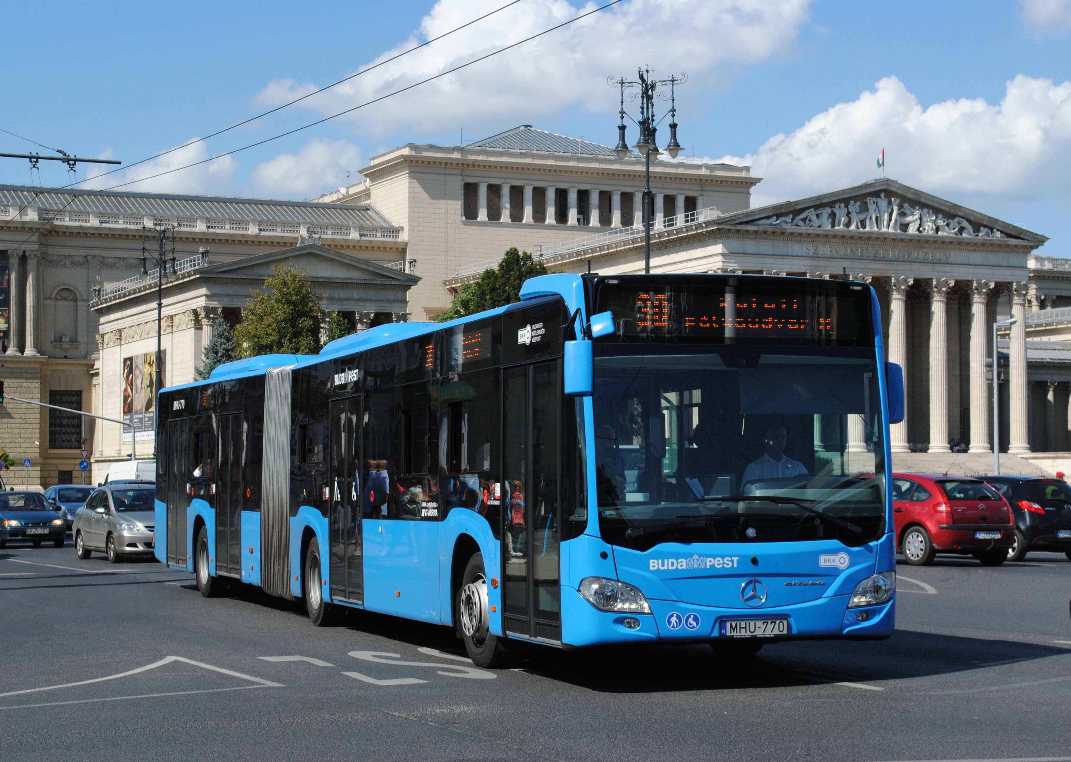 Mercedes-Benz Citaro G (new edition) in Budapest on Heroes' Square.